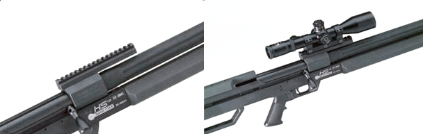 Left Picture: A picatinny rail on a Steyr HS .50. — Right picture: A scope on a picatinny rail of a Steyr HS .50.